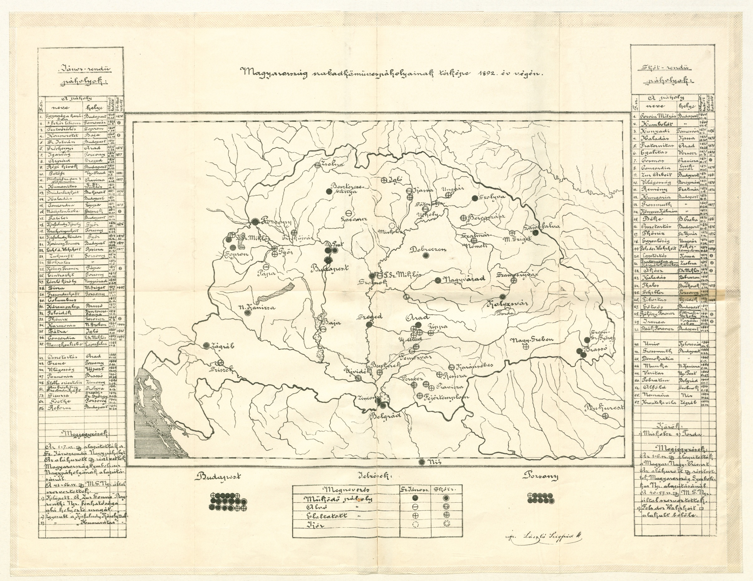 Map of Hungary's masonic lodges at the end of year 1892.